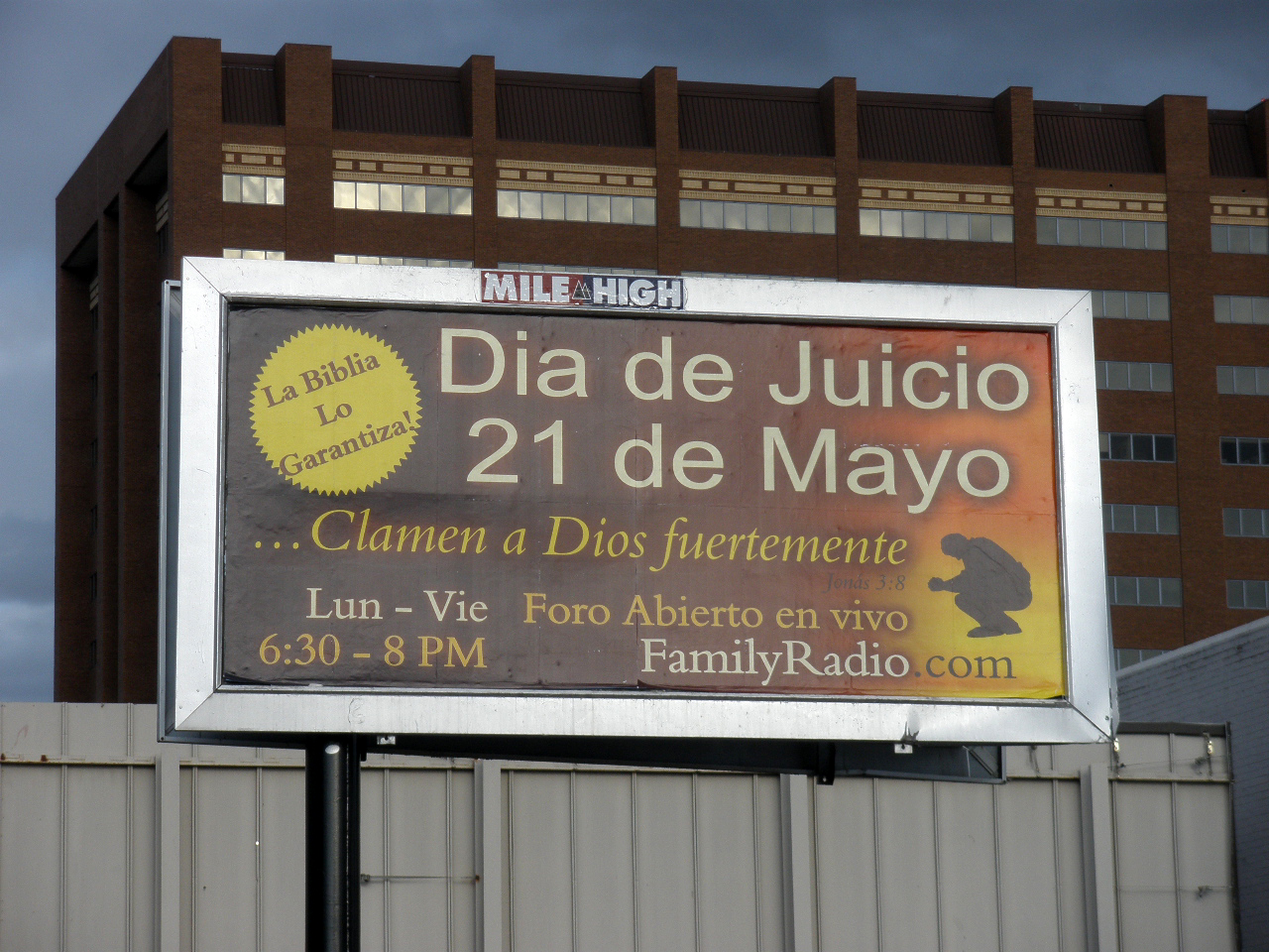 Sign in Spanish for Family Radio's prediction of the end of the world to occur on 21 May 2011, on 12th Avenue between Broadway and Acoma Streets, behind Golden Triangle Liquor Store, in Denver. (The liquor store has since been replaced by two restaurants.)